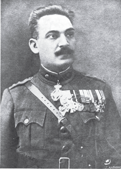 Stylianos Gonatas, Greek military officer and politician, as a Colonel during the time of the September 1922 Revolution